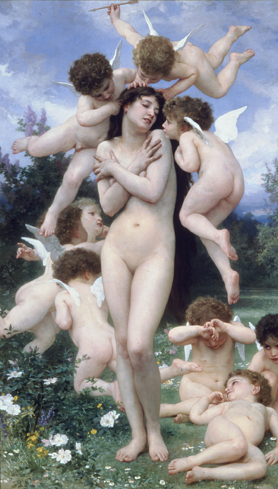 William Adolphe Bouguereau's art